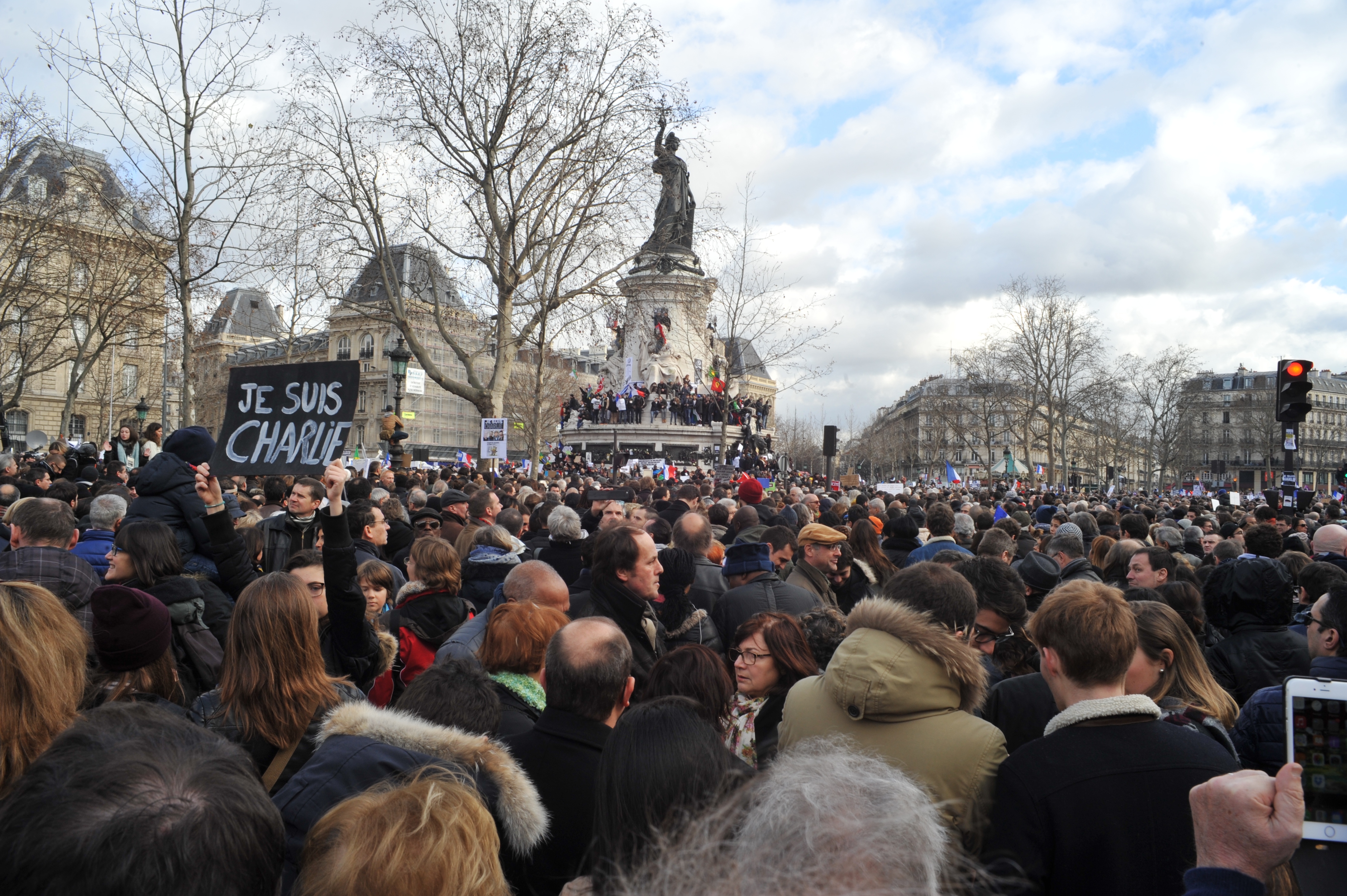 Paris rally in support of the victims of the 2015 Charlie Hebdo shooting, 11 January 2015.